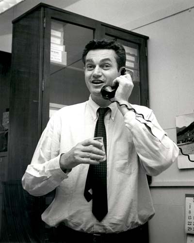 Nirenberg celebrating Nobel Prize with champagne in beakers - Nirenberg and his colleagues celebrated upon hearing the news. For his landmark work on the genetic code, Nirenberg was awarded the 1968 Nobel Prize in Physiology or Medicine. He shared the award with Har Gobind Khorana of the University of Wisconsin and Robert W. Holley of the Salk Institute. Working independently, Khorana had mastered the synthesis of nucleic acids, and Holley had discovered the exact chemical structure of transfer-RNA. NIH was particularly proud of Nirenberg's success because he was the first NIH intramural scientist to win the Nobel Prize. Some had doubted that the government could produce innovative and internationally recognized scientists, but Nirenberg and his colleagues proved them wrong.